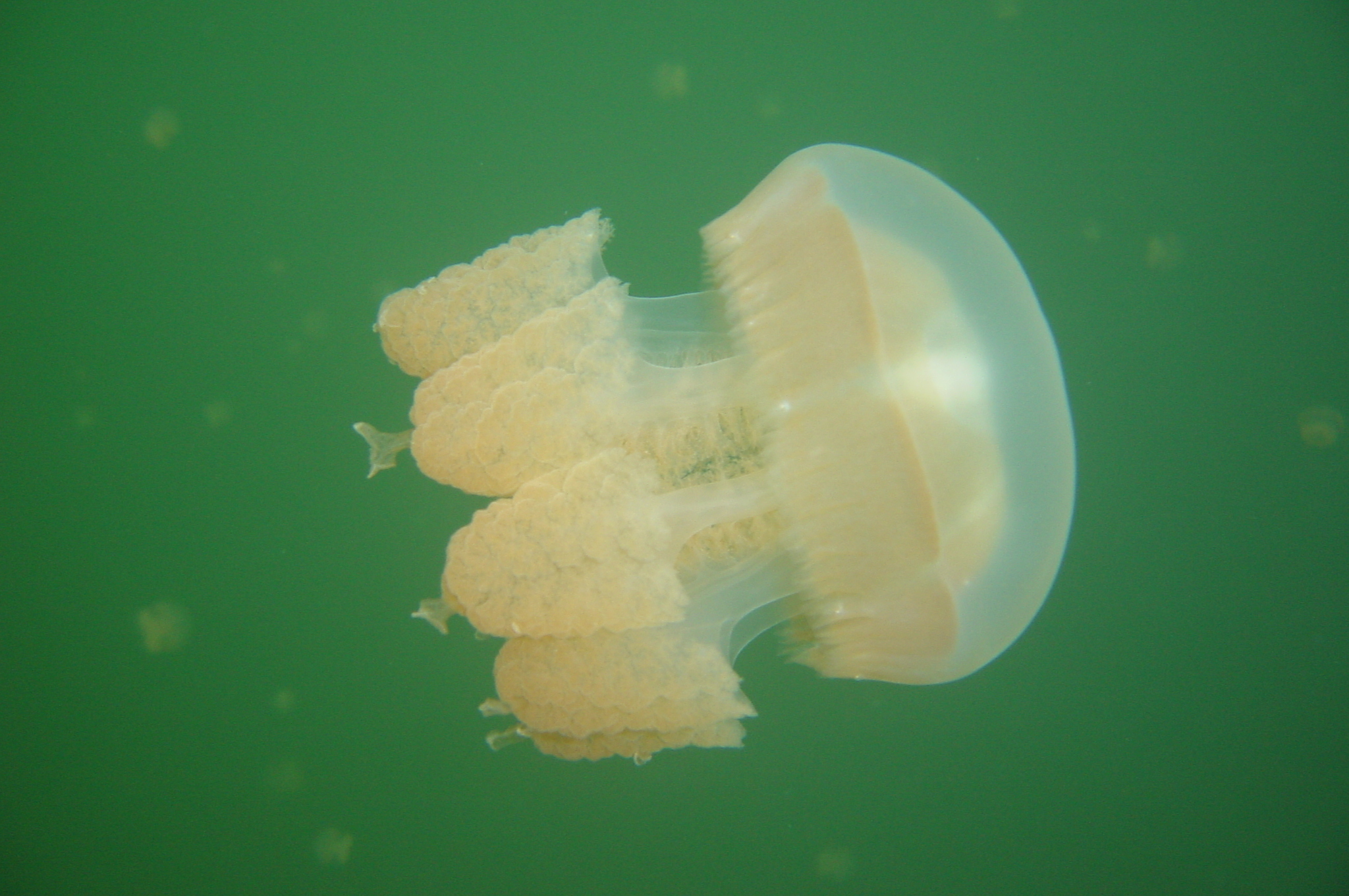 Side view of Mastigias sp. in Jellyfish Lake, Palau.